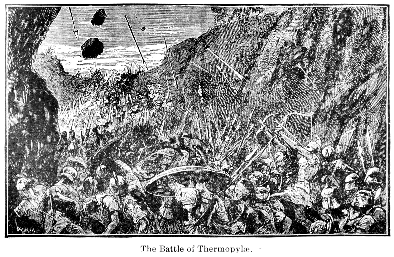 The same drawing entitled "Retreat of the Athenians from Syracuse"The Battle of Thermopylae engraving